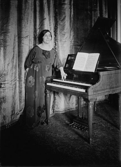 Wanda Landowska (1879 – 1959), Polish, naturalized French citizen, harpsichordist and pianist.